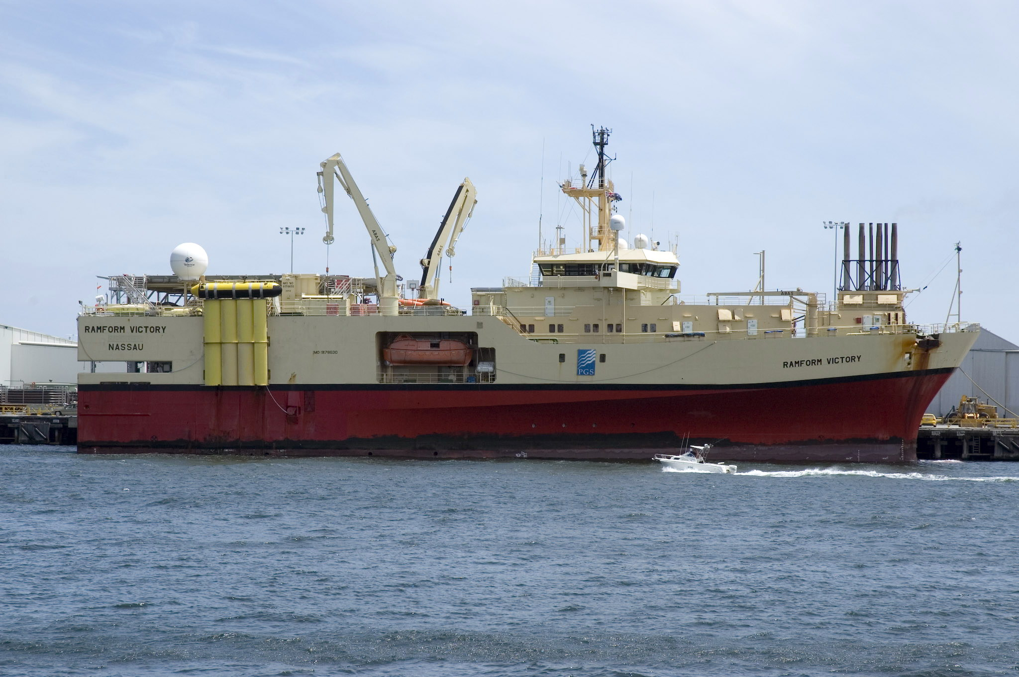 Petroleum Geo-Services survey ship 'Ramform Victory' - Fremantle, Western Australia.